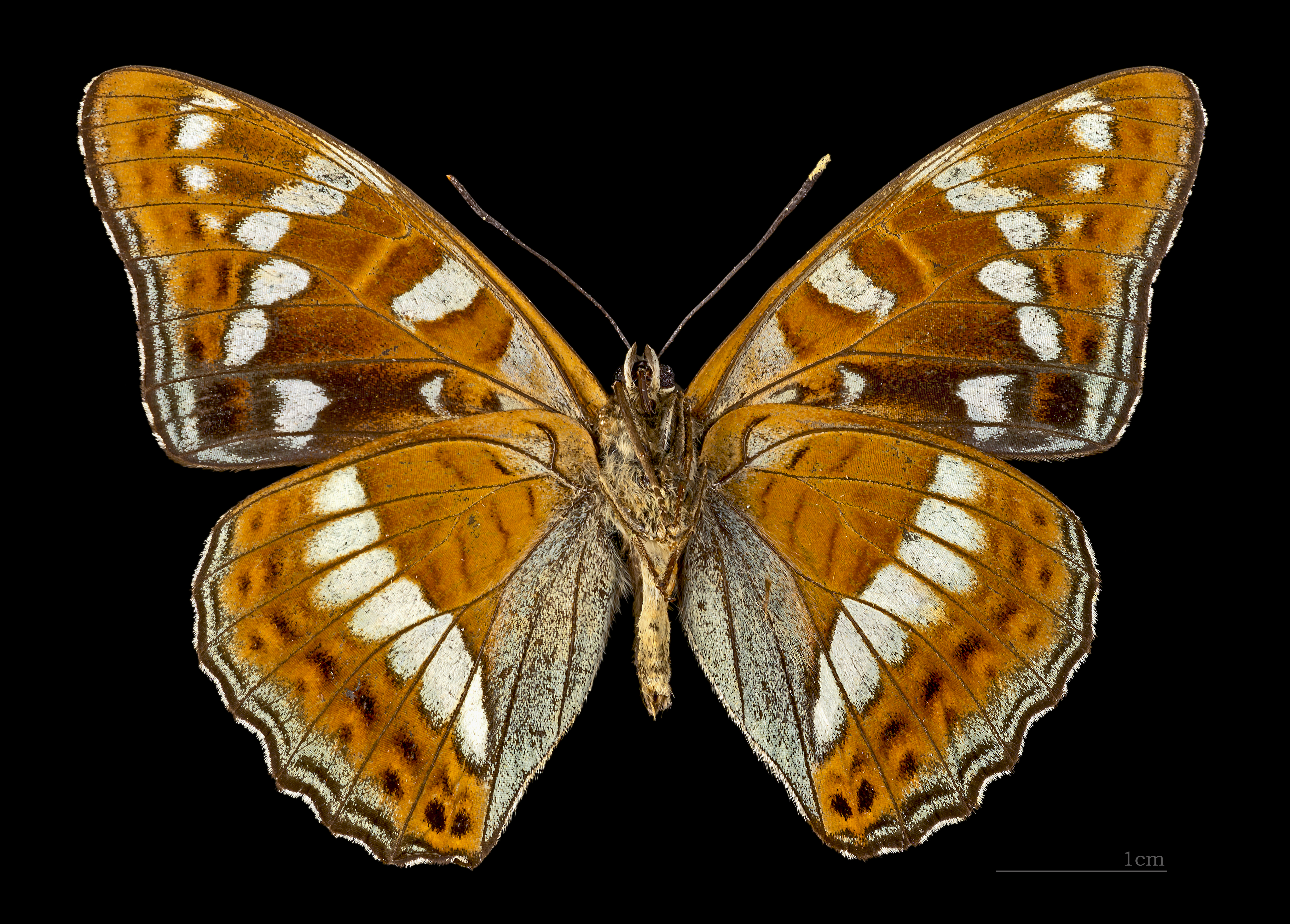 Poplar admiral - △ Ventral side